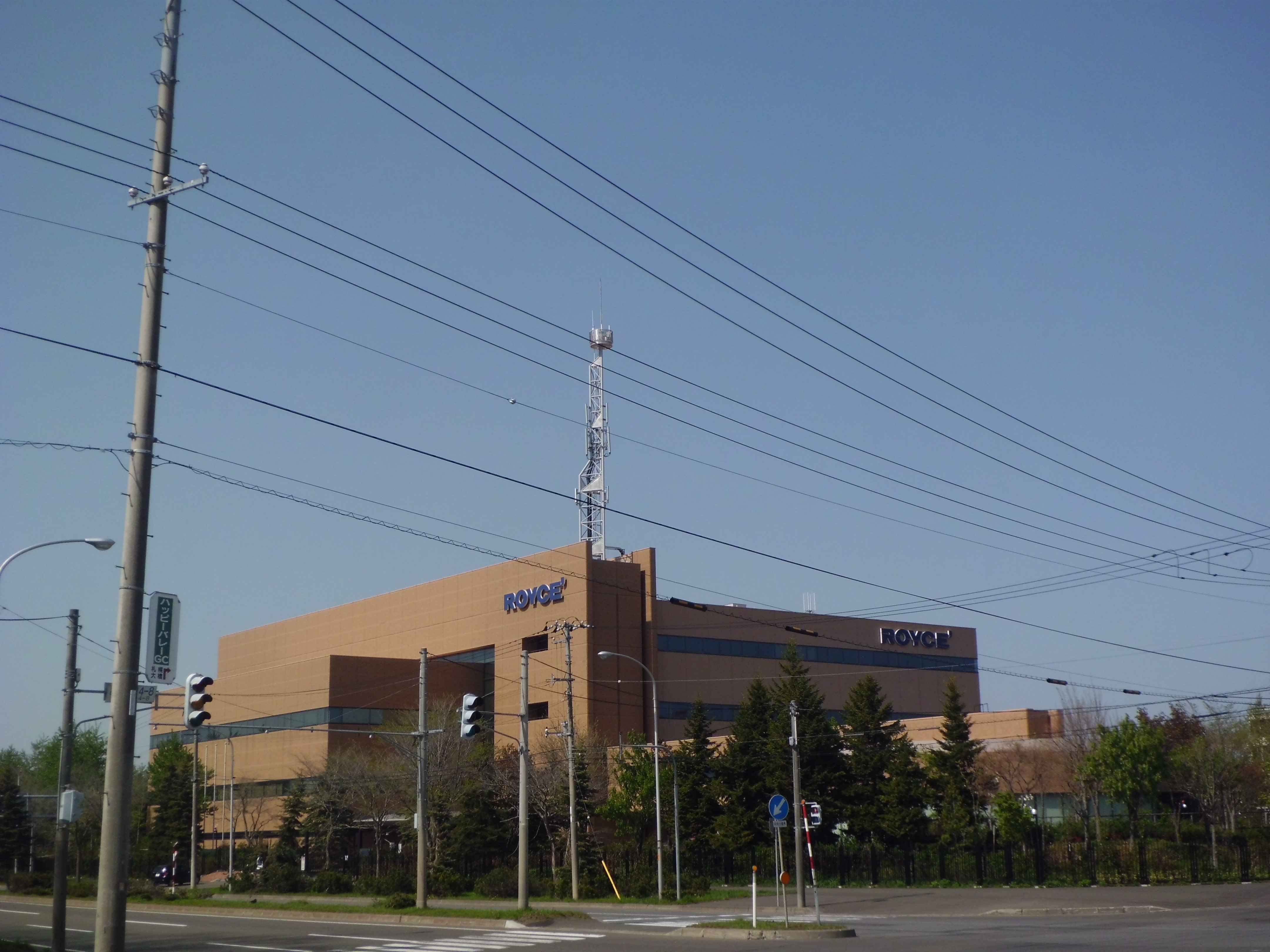 Royce' Building in Ainosato, Kita-ku, Sapporo